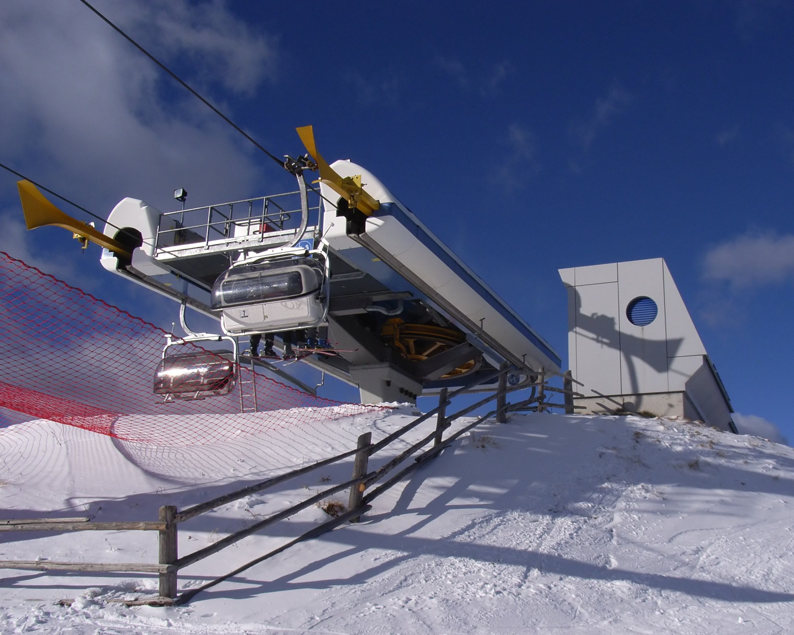 Italy, South Tyrol, Kronplatz: Top station of the Chairlift “Sonne” (4-CLD/B).